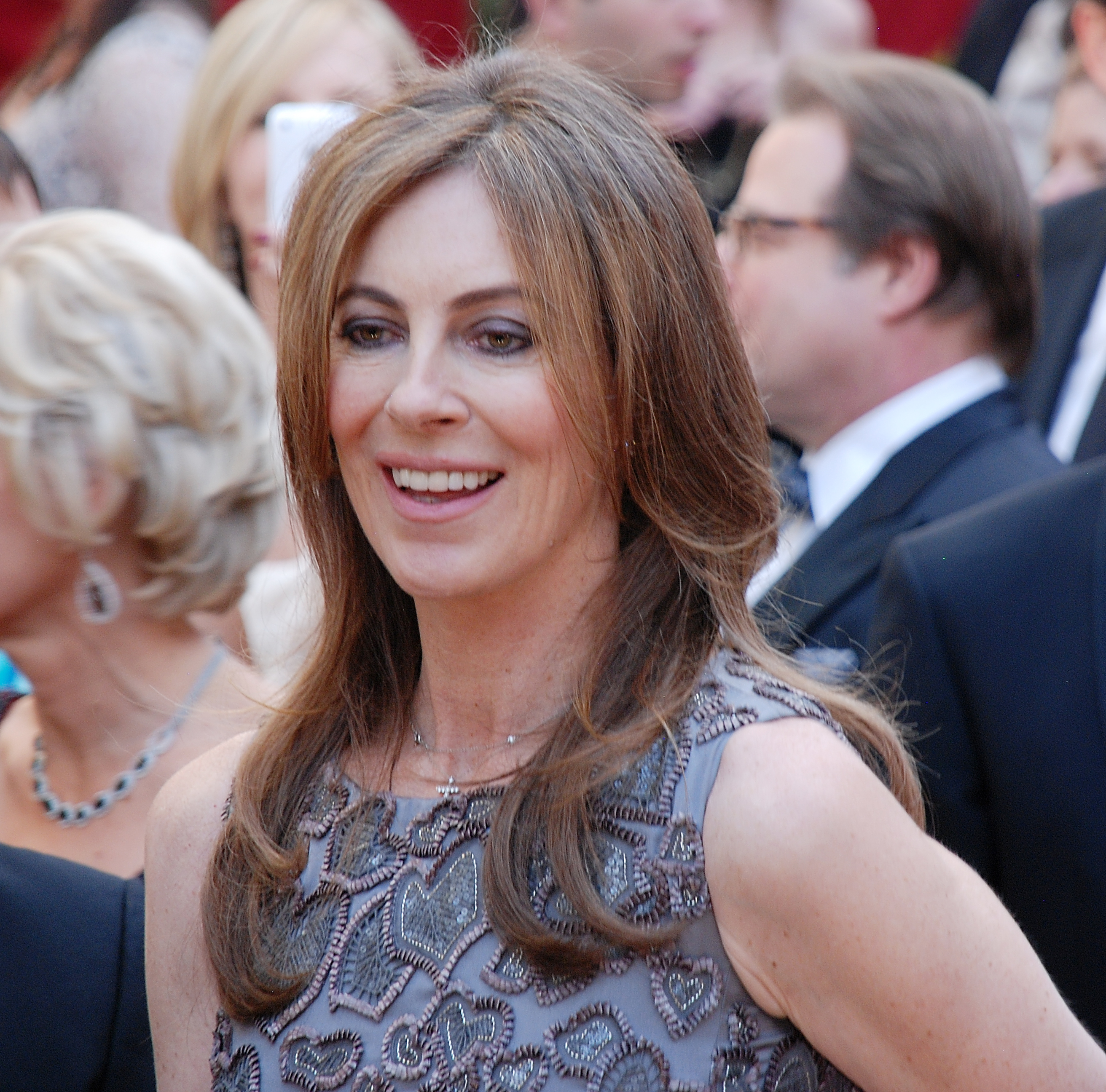 Director Kathryn Bigelow on the red carpet at the 2010 Academy Award ceremonies